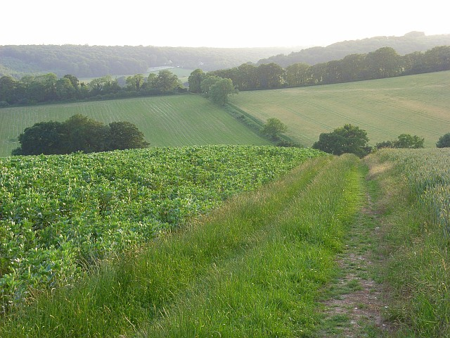 Footpath near Pishill Descending between broad beans and wheat. In the bottom of the valley it meets a bridleway. Beyond that a path follows the hedge over the lower ridge and down to Pishill.